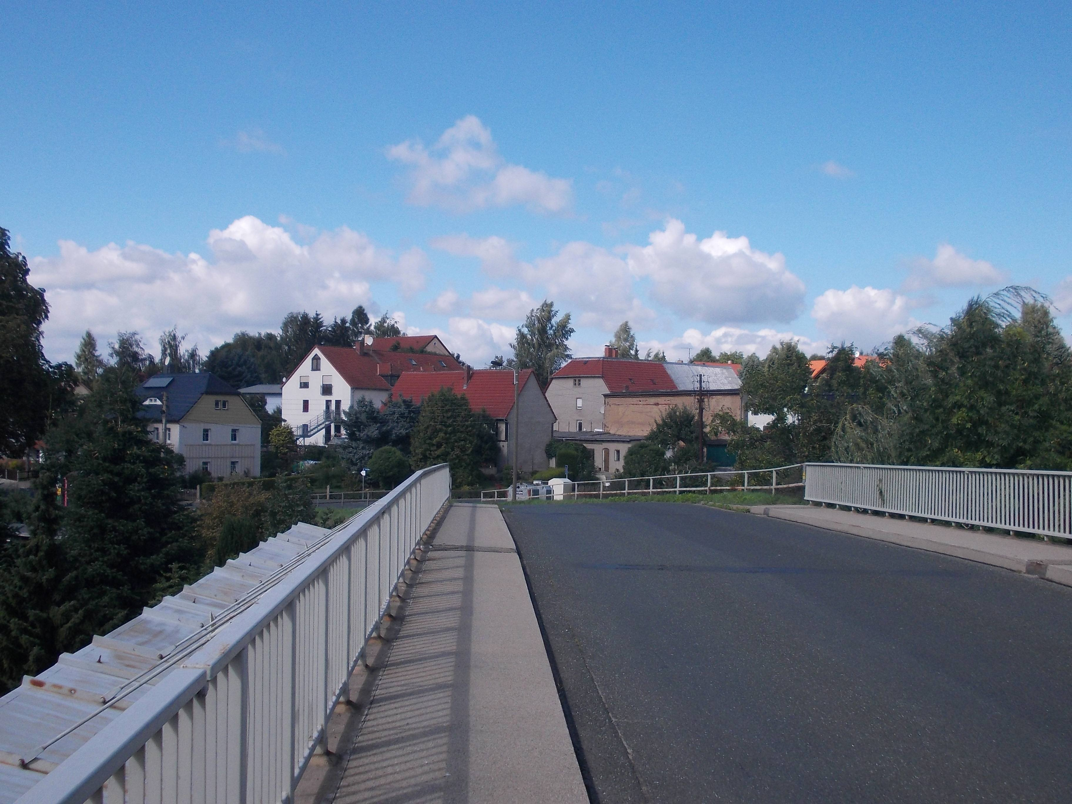 Gärtitz (Döbeln, Mittelsachsen district, Saxony) from the bridge across Riesa–Chemnitz railway